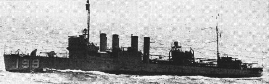 The U.S. Navy destroyer USS Dallas (DD-199) underway before the Second World War.